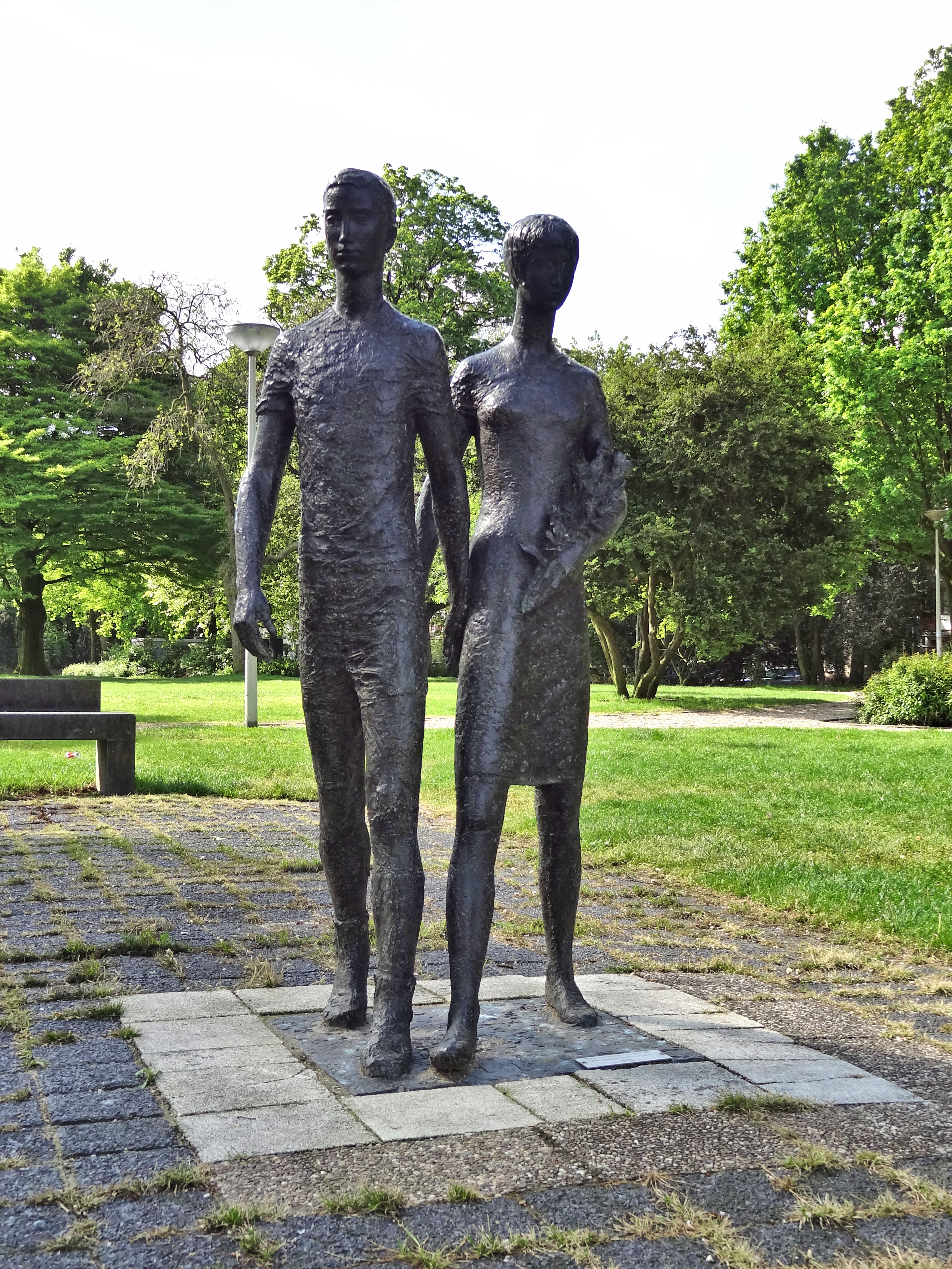 Vierdaagsemonument created by Vera Tummers-van Hasselt in the Julianapark in Nijmegen, The Netherlands